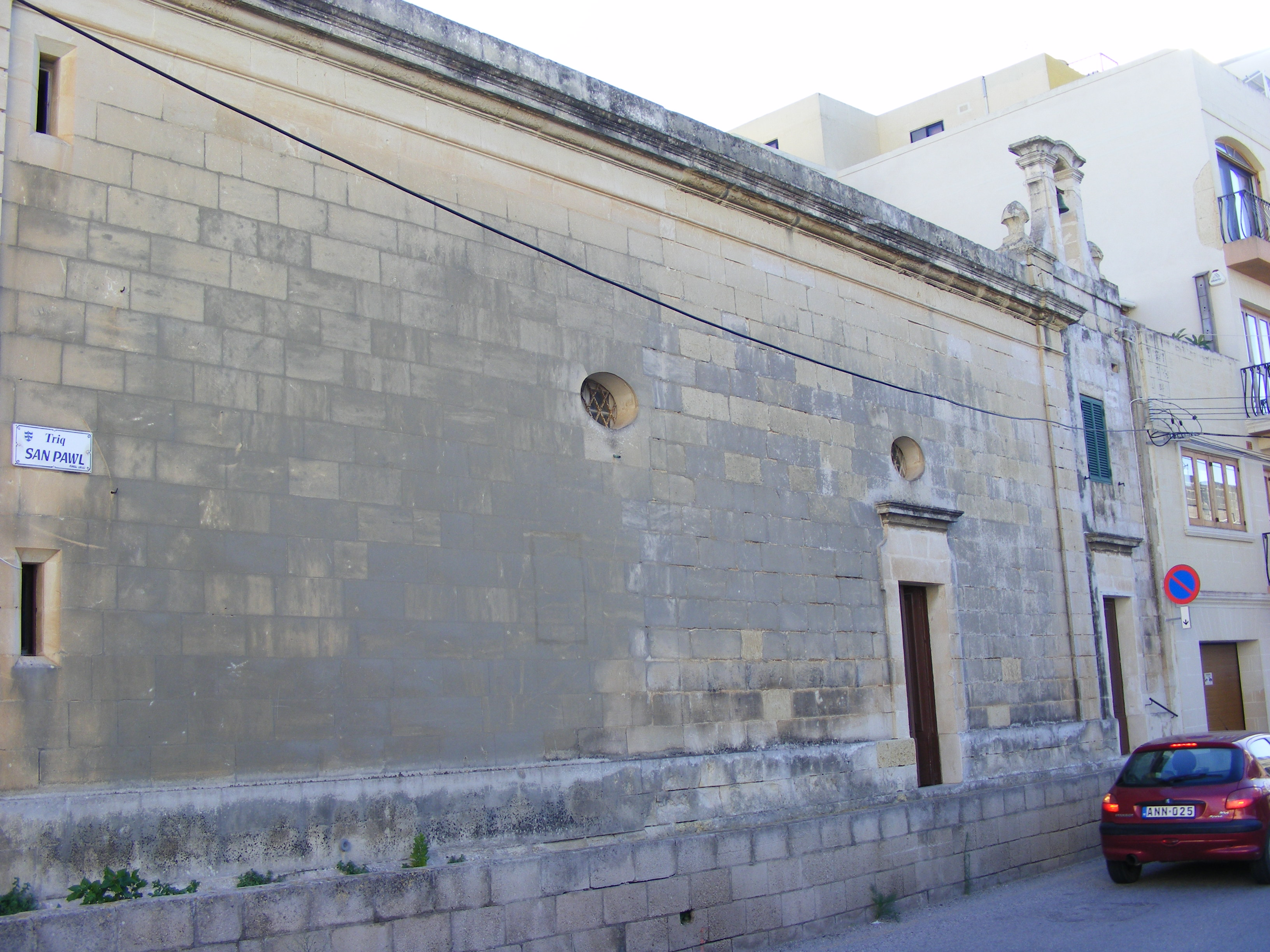 Side wall of Our Lady of Carmel Church, Triq San Pawl, San Pawl il-Bahar (St. Paul's Bay), Malta